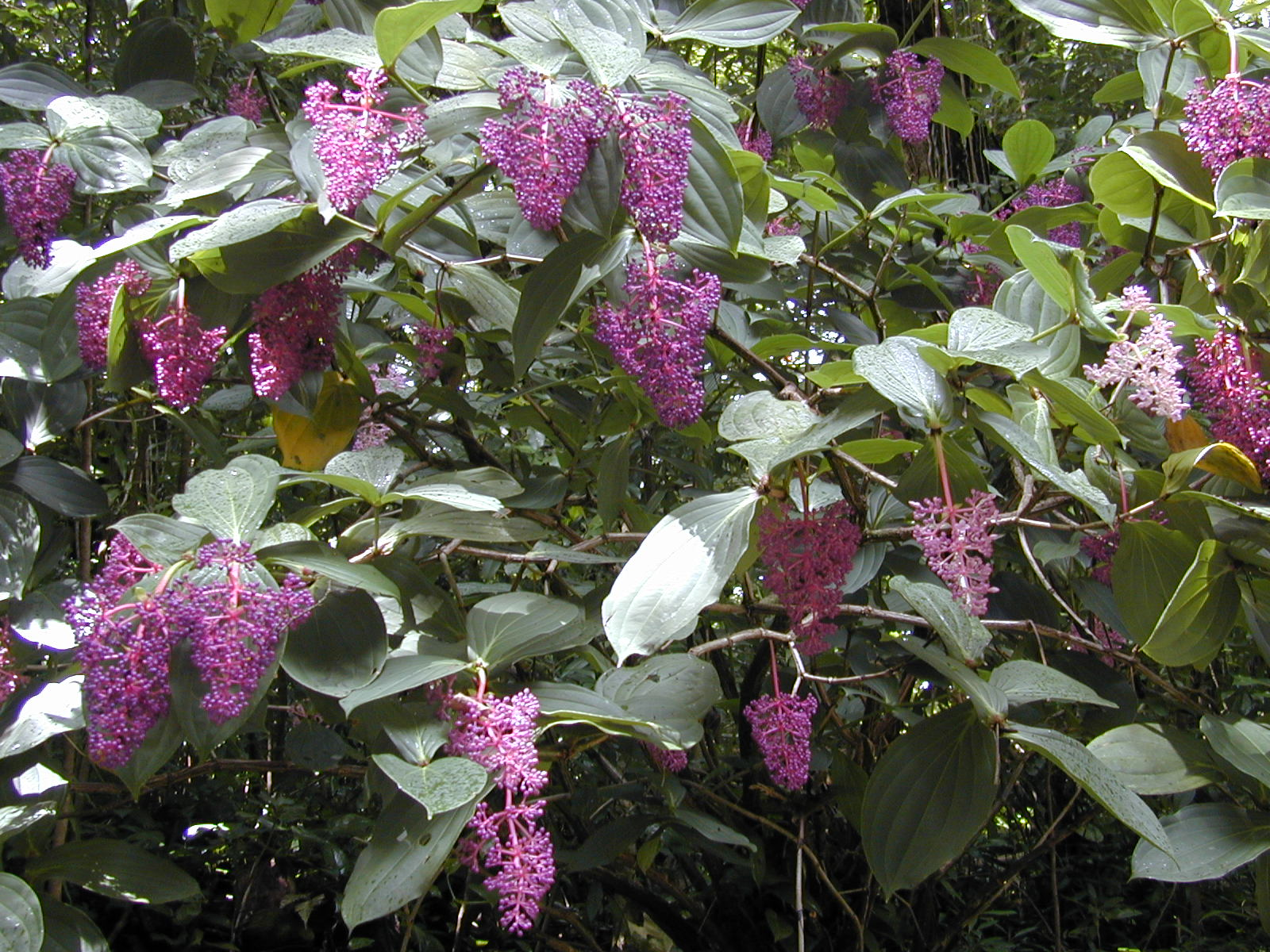 Medinilla cumingii (leaves and flowers fruits). Location: Maui, Nahiku